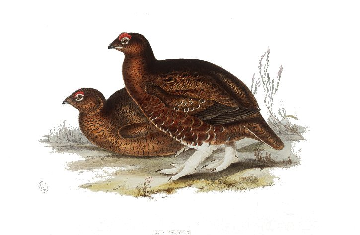 Illustration of Lagopus lagopus scoticus Latham (Red Grouse).